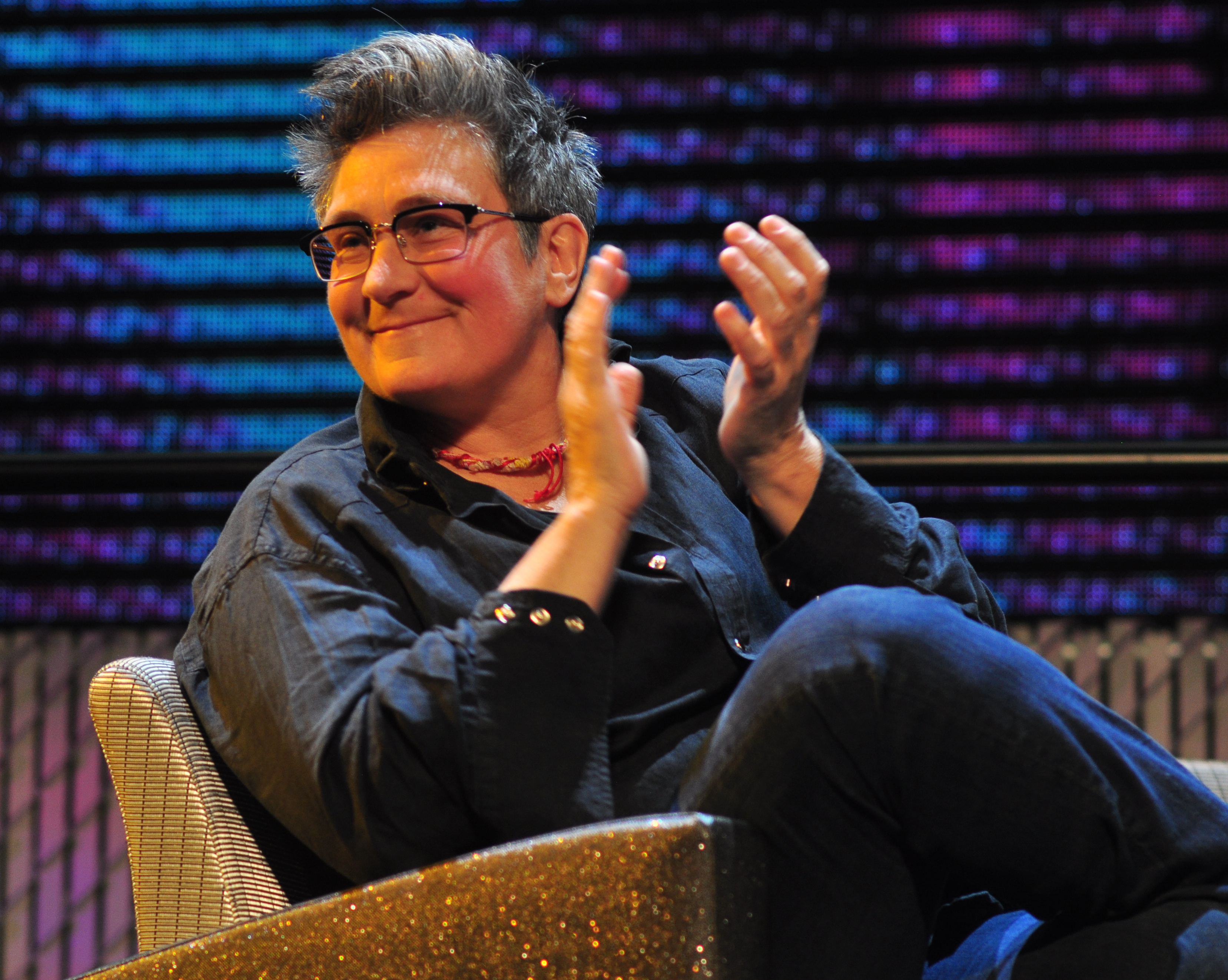 Keynote panel, Pop Conference 2016, EMP Museum, Seattle Center, Seattle, Washington. The panel consisted of k.d. lang, Valerie June, Merrill Garbus (who performs as Tune-Yards, Ann Powers. Photo here is of lang.